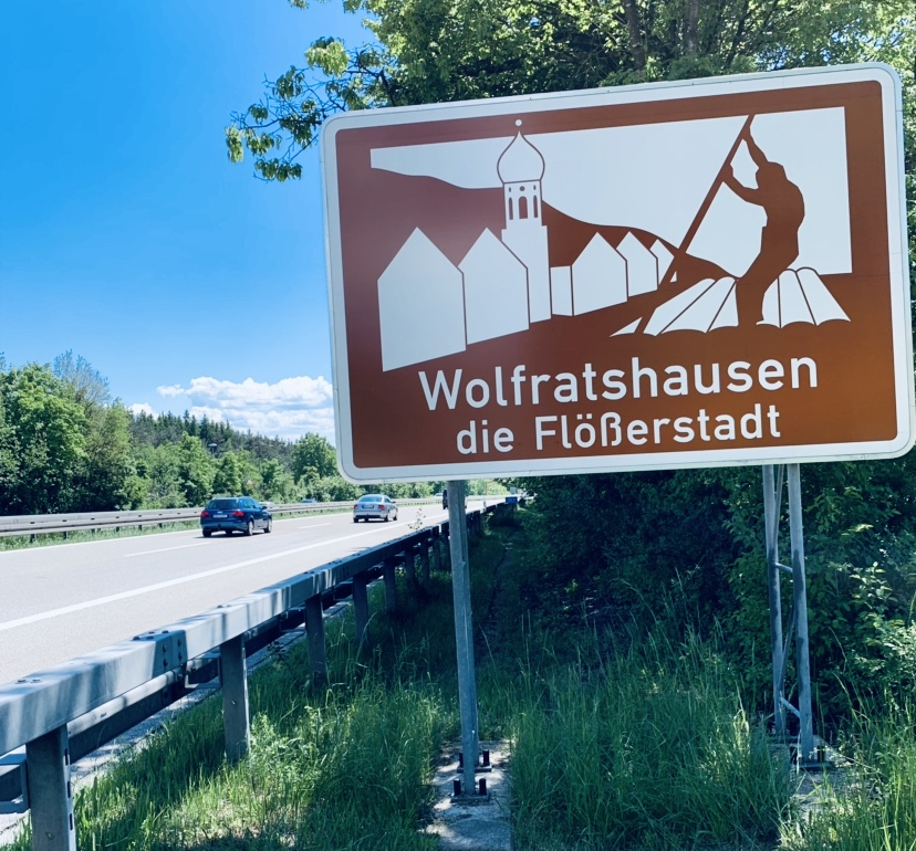 Wolfratshausen call themselves in the marketing "Flößerstad Wolfratshausen". "Floß" means in German is a "raft" and historical goods was rafted from Wolfratshausen down the river to Munich. Аҧсшәа: Wolfratshausen benutzt in sein Marketing den Begriff "Flößerstad Wolfratshausen," Historisch wurde Ware von Wolfratshausen nach München auf Flöße transportiert.